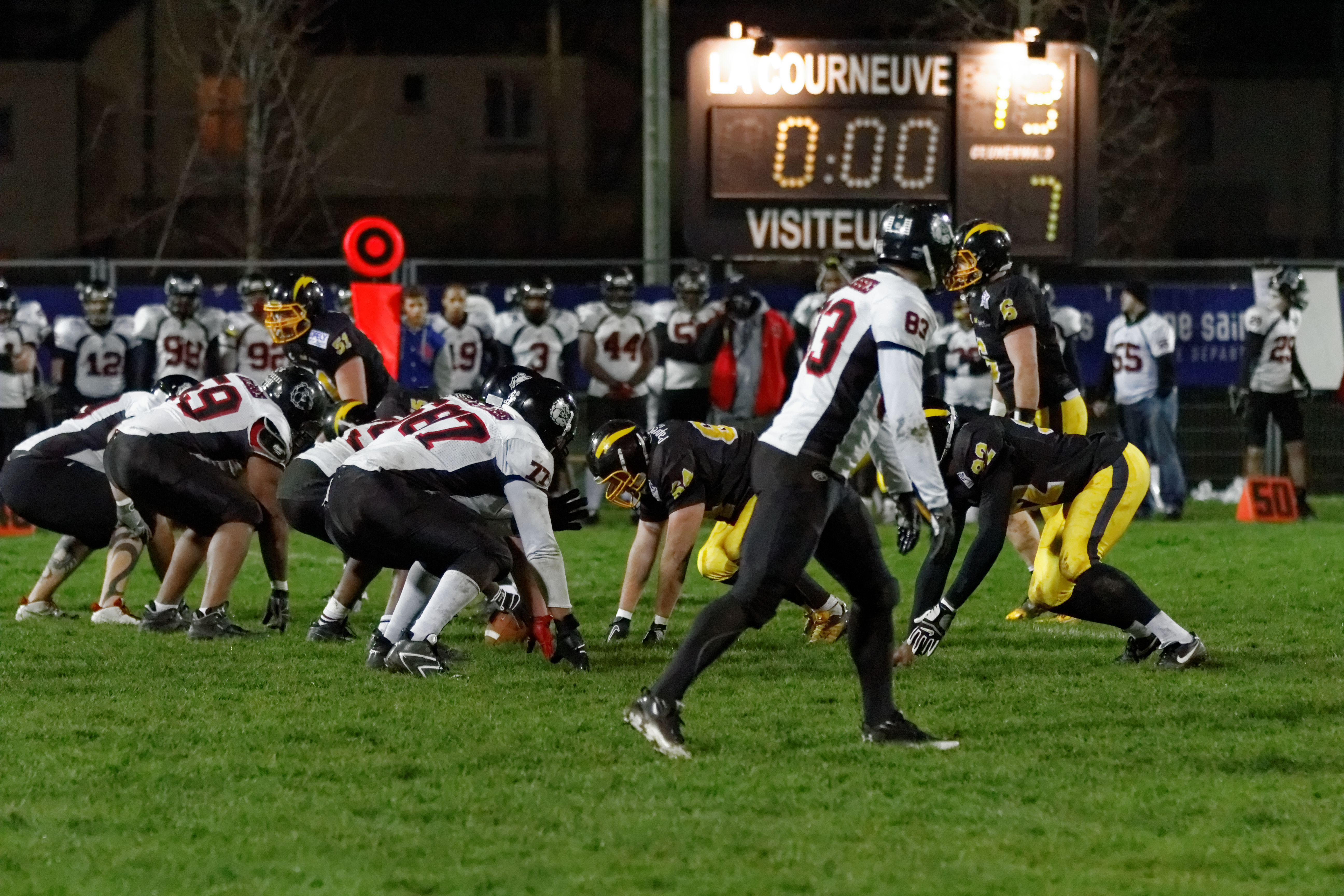 Flash vs Molosses, February 16th, 2013.